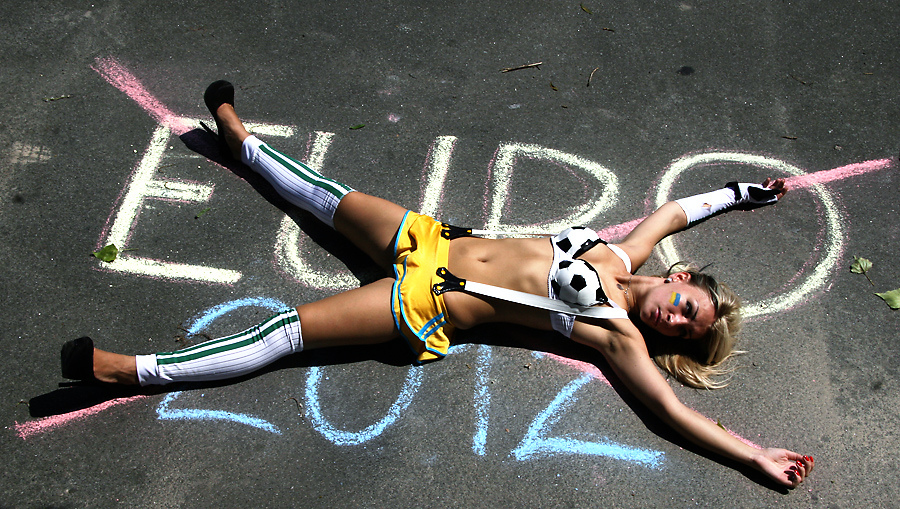 Femen activist protests against the Euro 2012 in Ukraine.